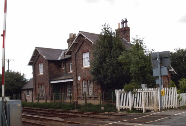 Heslerton station. The train station at Heslerton closed in the 1960s, but the line remains open to this day and is used by regular fast trains from York to Scarborough. The old station is a house.